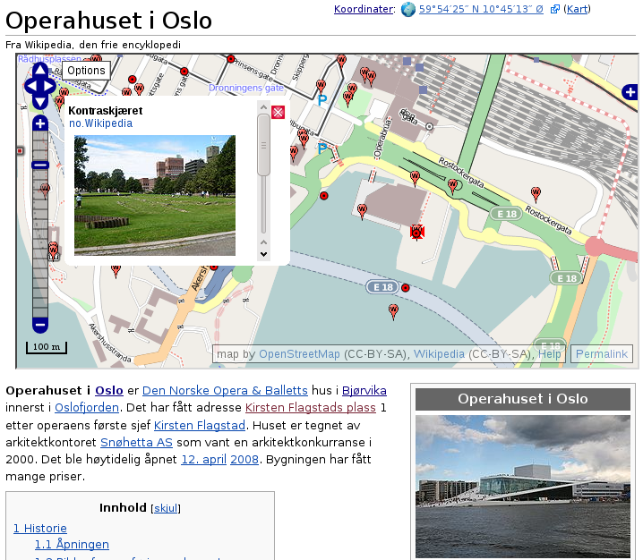 OpenStreetMap from the Operahuset i Oslo Wikipedia page, showing Kontraskjæret as a pop-up link. Screenshot of the Wikipedia page.